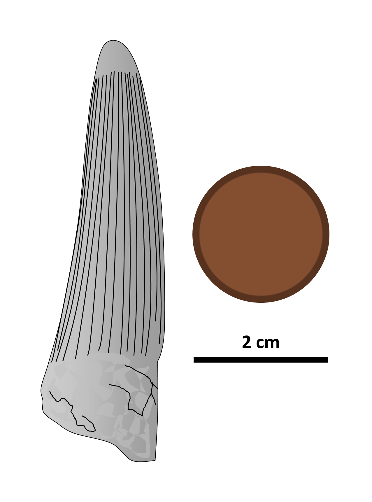 Drawing of the Siamosaurus holotype tooth[1] with a British penny for size comparison. Measurements from Buffetaut & Ingavat[1]